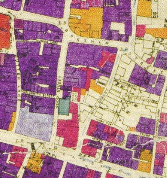 City of London Bomb Damage Map Wood Street and Milk Street.